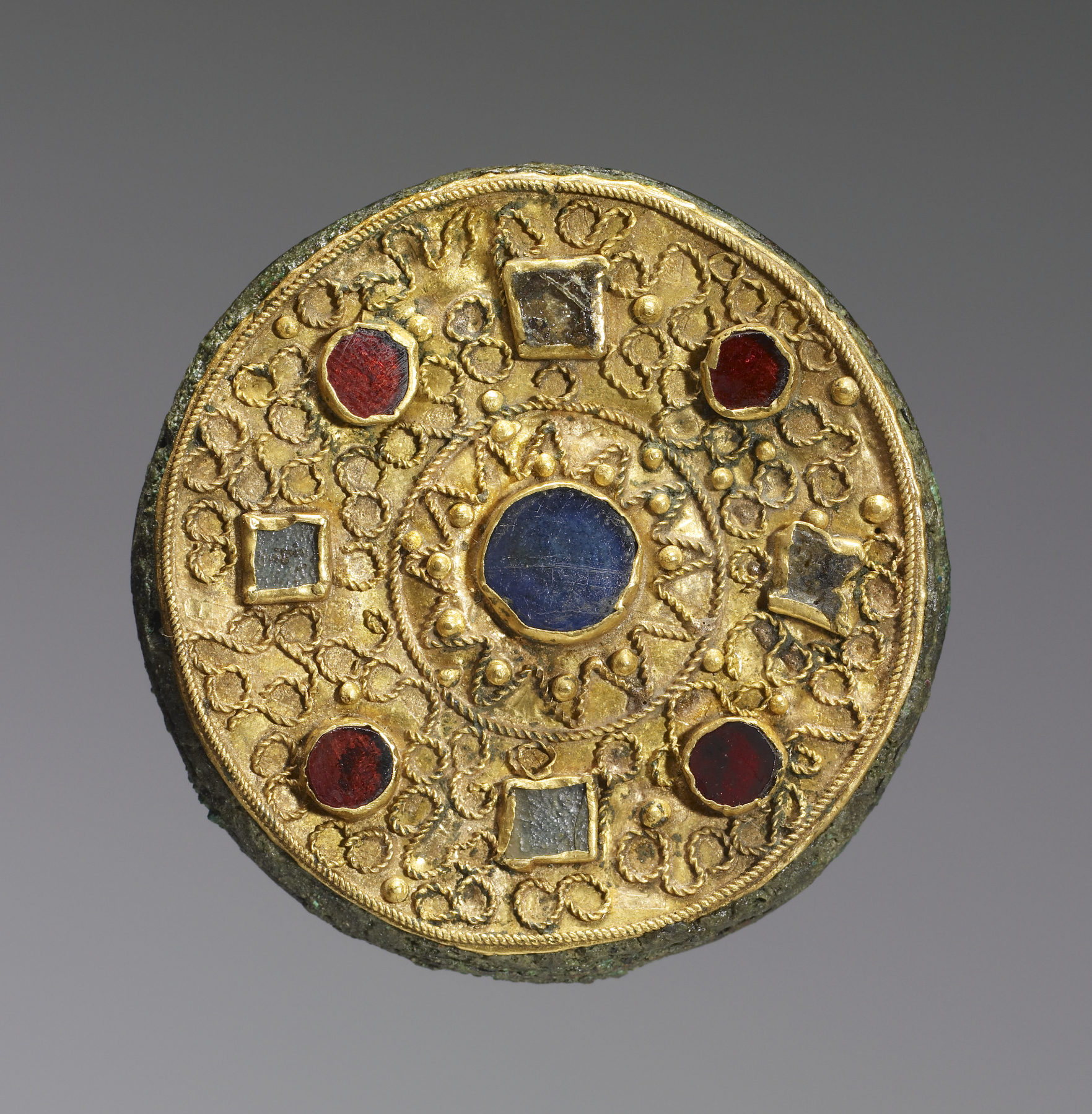 This disk fibula is made of sheet gold decorated with gold filigree (fine, twisted wire) and gold granules and set with colored stones and glass. The pliable gold on the disk face is backed by a bronze plate which extends slightly beyond the gold face. Traces of rust remain on the back from a corroded iron clasp. A Frankish man would have used a fibula like this one to pin his cloak at the right shoulder.